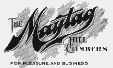 Maytag used the good hill climbing abilities of its cars for advertising. Senator Fredrick L. Maytag was better known for his laundry wash machines, although the Duesenberg-powerd Maytags were quite successful in racing.